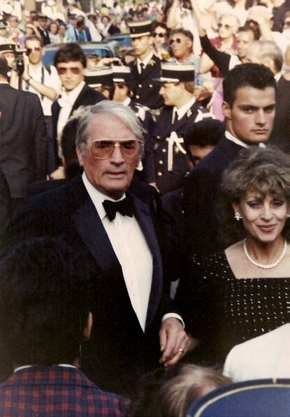 Gregory Peck & Veronique Peck at the 1987 Cannes Film Festival.